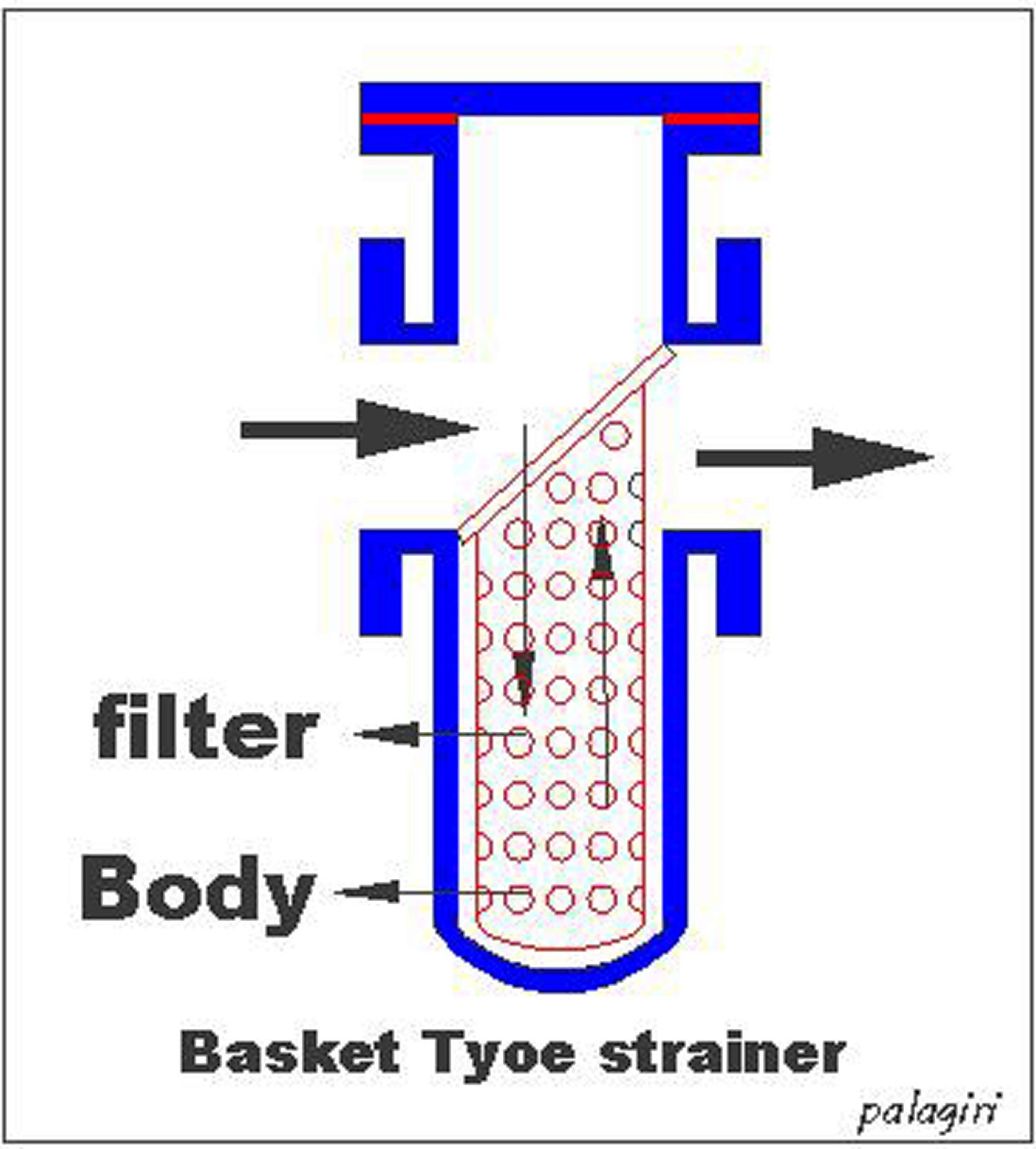 Basket type strainer.A kind of filter aid